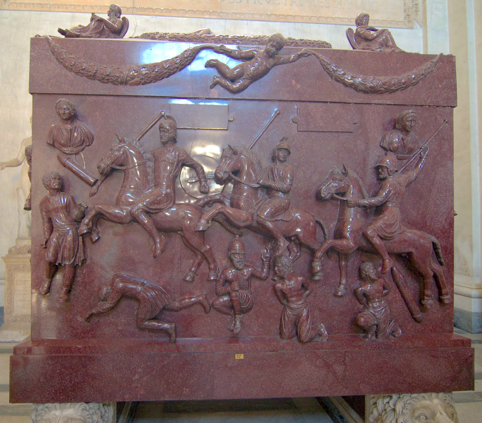 see above